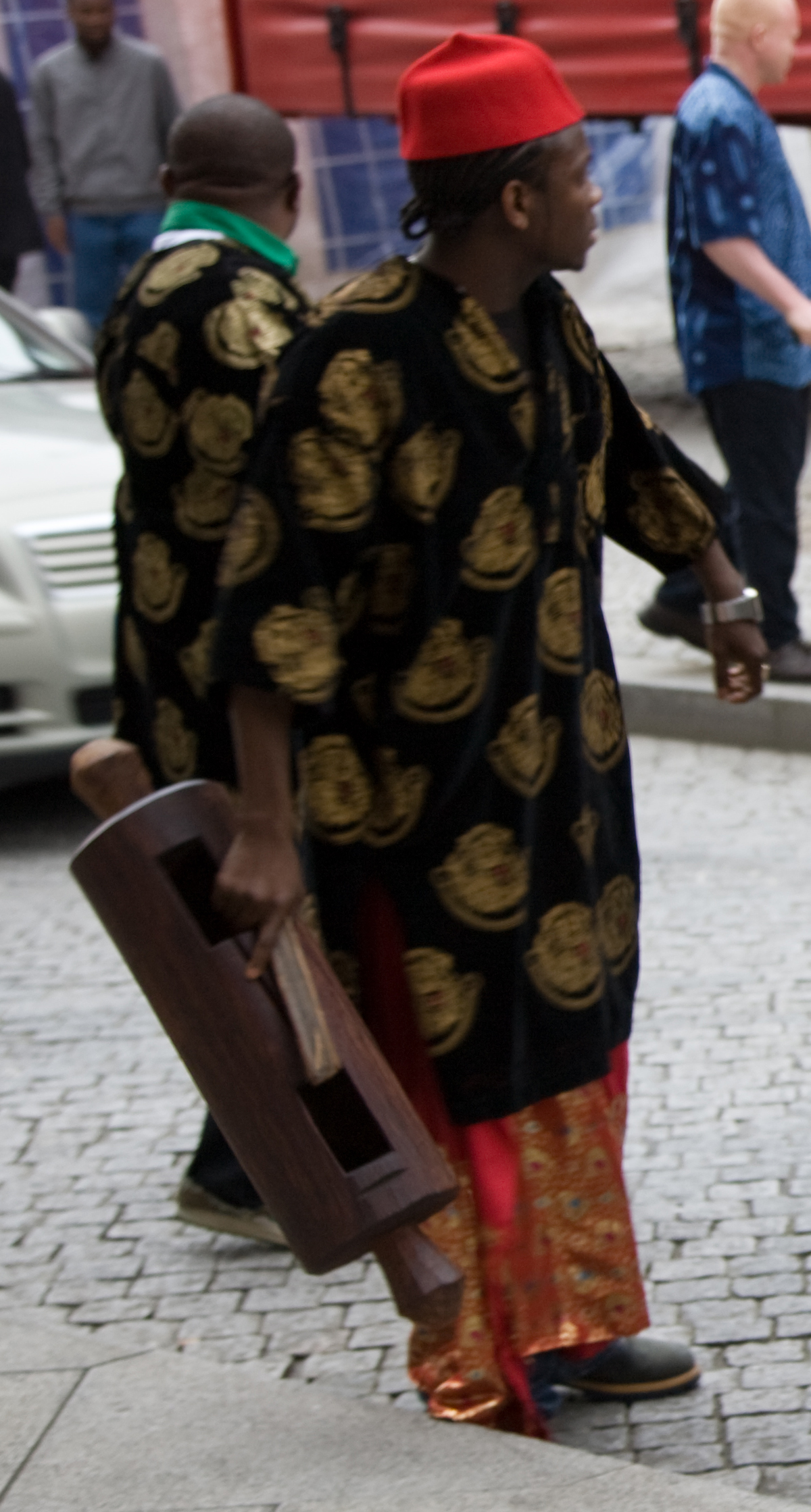 Ekwe Igbo musical instrument Igbo: Ngwa egwu ndi Igbo ha na kpo Ekwe